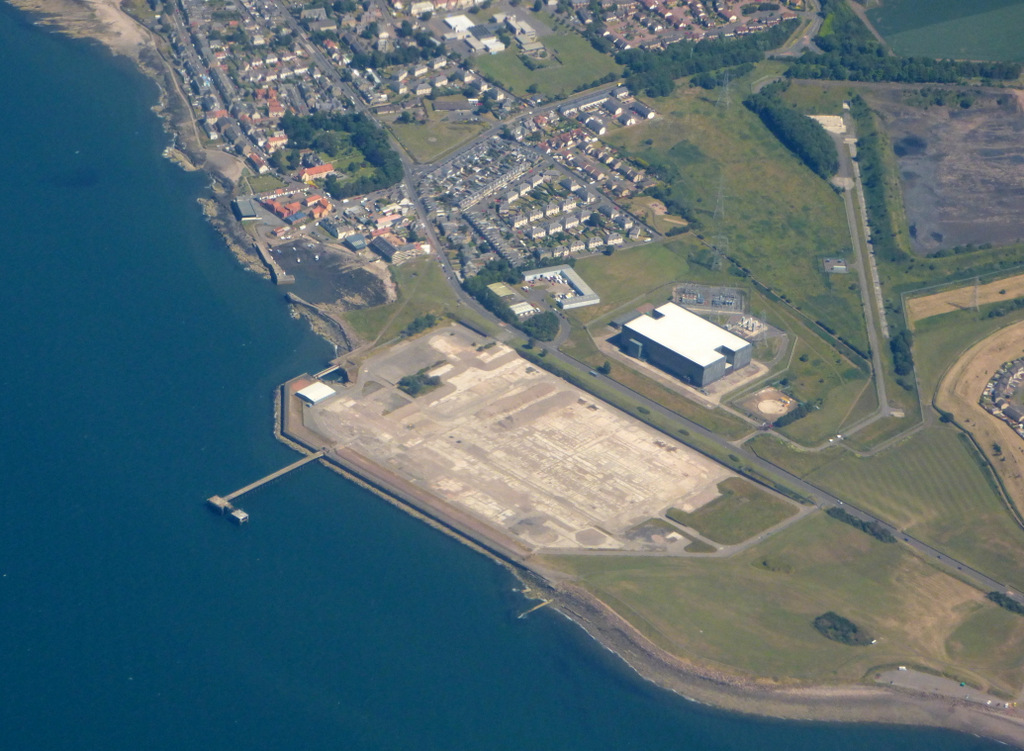 Site of Cockenzie Power Station from the air